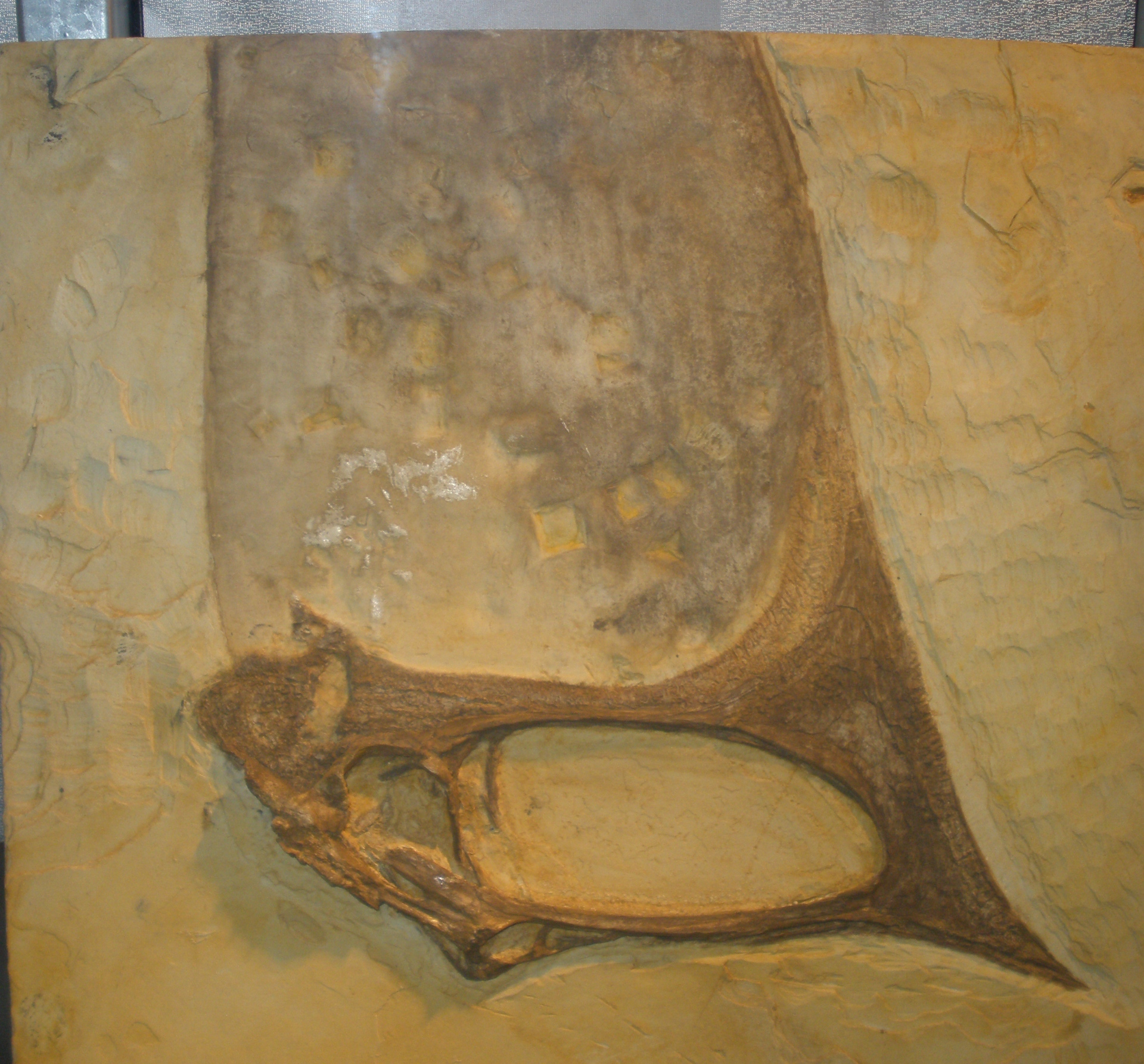 fossil of "Tapejara" navigans, an extinct pterosaur